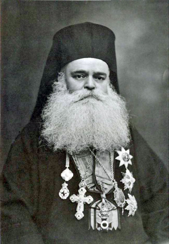 Pavel, Bishop of Stara Zagora Eparchy